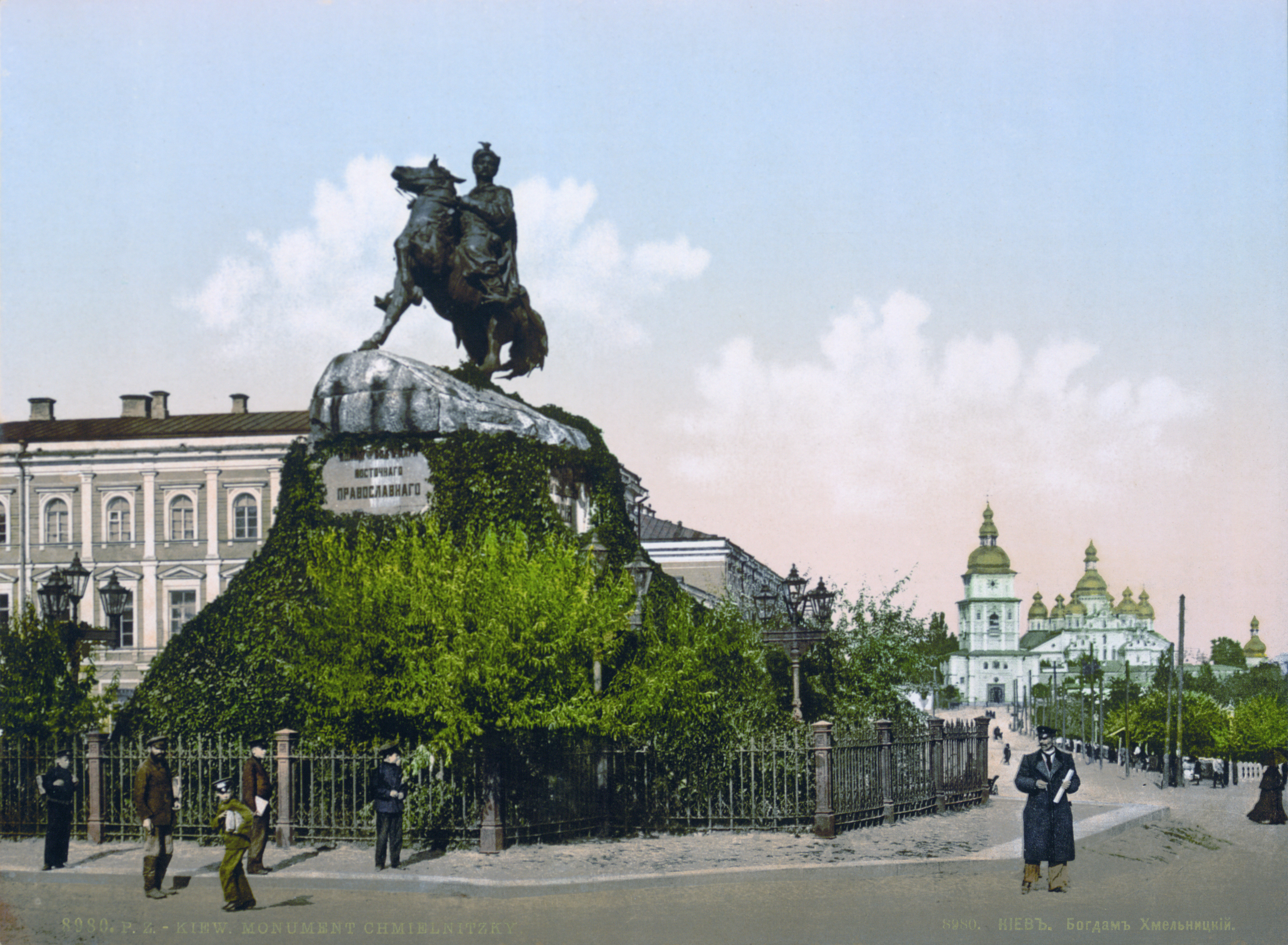 19th-century photo of Bohdan Khmelnytsky Monument by Mikhail Mikeshin in Kiev, Russian Empire (now Ukraine). Print no. "8980"